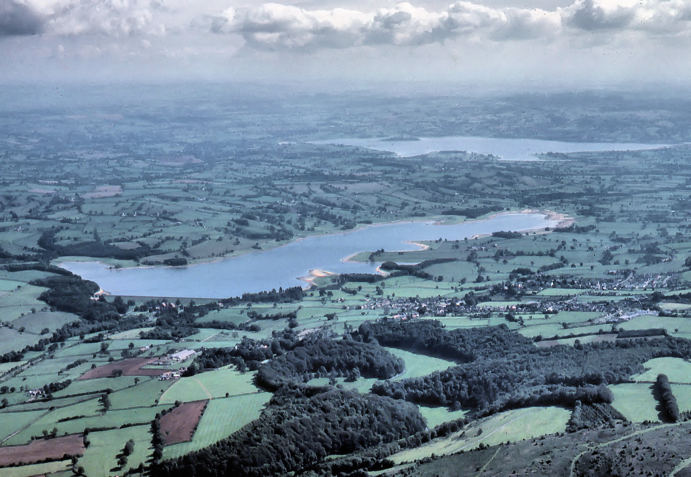 Aerial view of Blagdon Lake (foreground) and Chew Valley Lake (background) from a light aircraft. Sorry about the poor quality.